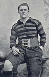 Photograph of Dr. Alfred Allport, Blackheath and England rugby union footballer